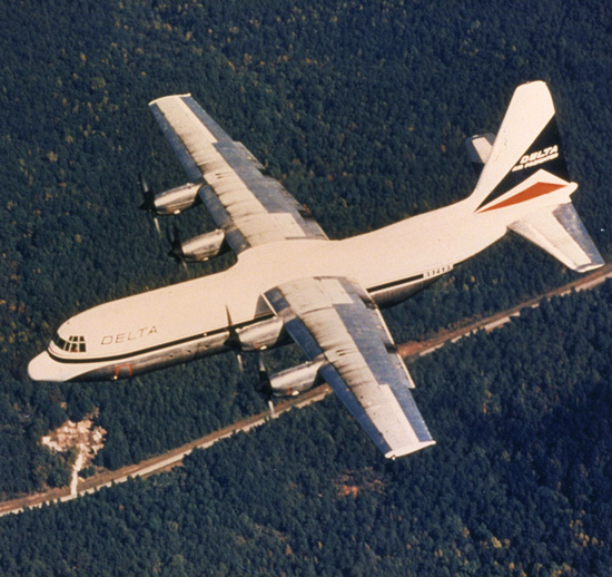 Catalog #: 00068323 Manufacturer: Lockheed Designation: L-100 Official Nickname: Hercules Notes: Civil C-130 Repository: San Diego Air and Space Museum Archive